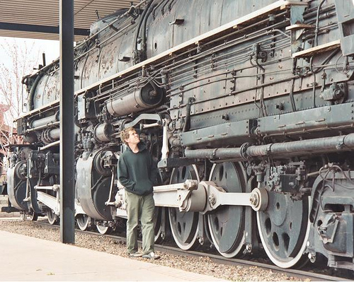 Duluth Mesabi & Iron Range 2-8-8-4 'Yellowstone' No. 229 at Two Harbors, Minn.